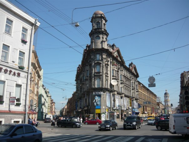 "Five corners" (Saint-Petersburg, Russia). The building in the middle is erected in 1913, architect Alexander Lishnevsky.